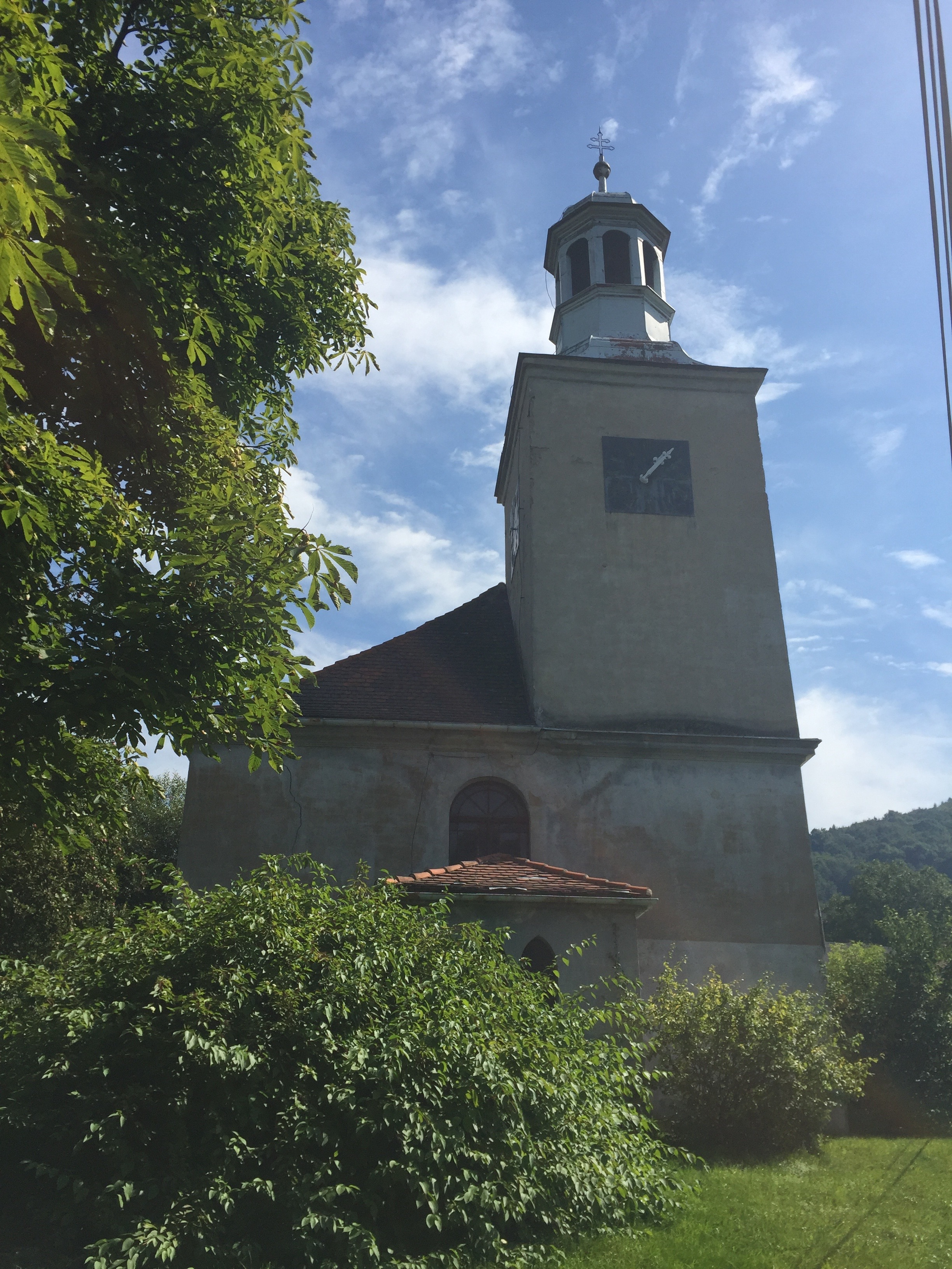 Tower Church of the Beheading of St. John the Baptist in Těchlovice